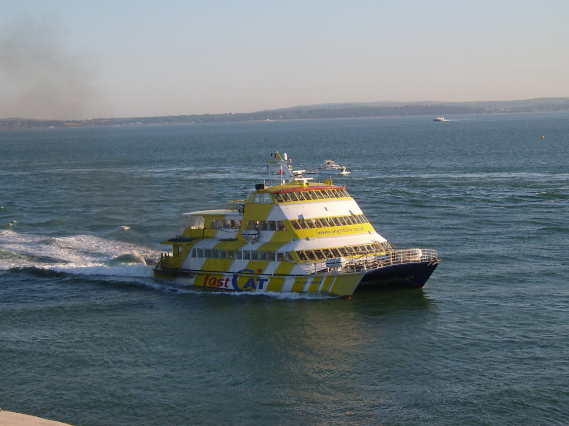 Wightlink HSC Our Lady Pamela My own work, taken on holiday.